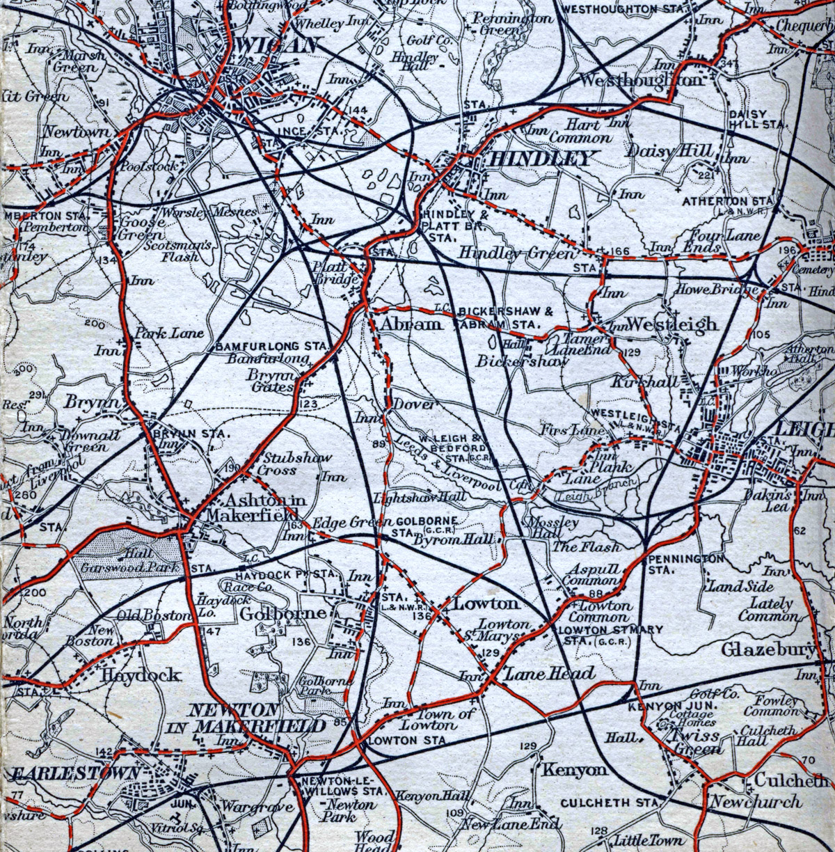 Map of South Lancashire published in 1911 showing the railway system in use in the Wigan, Newton and Leigh area.